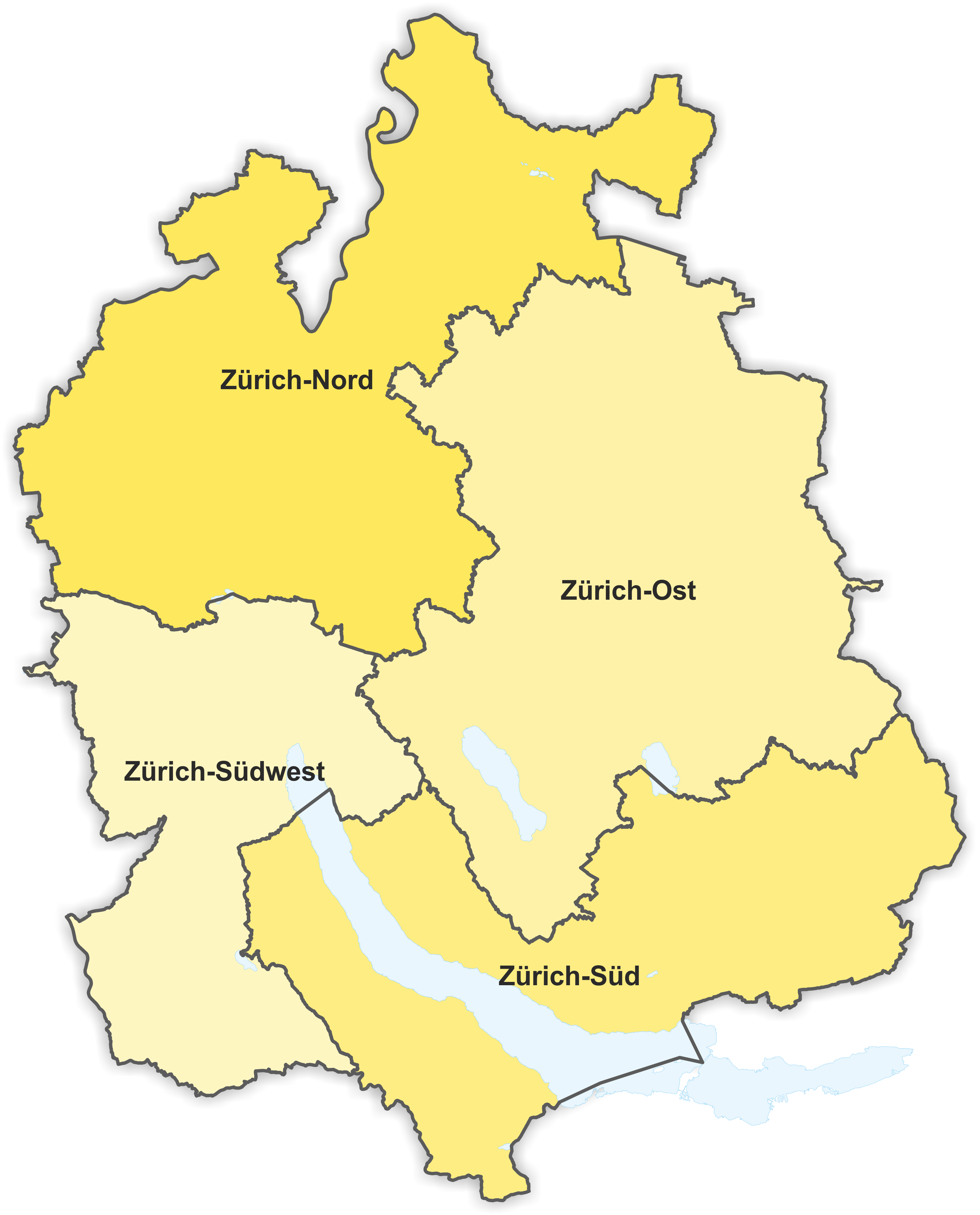 National council constituencies in the canton of Zürich from 1881 to 1899